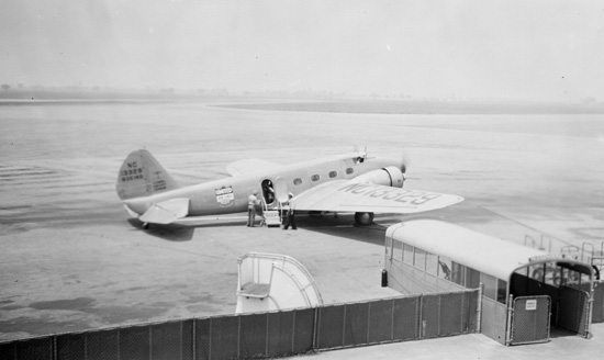 A United Airlines Boeing 247 is at a terminal 'gate' as it awaits passengers.